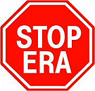 Sign used by ERA opponents